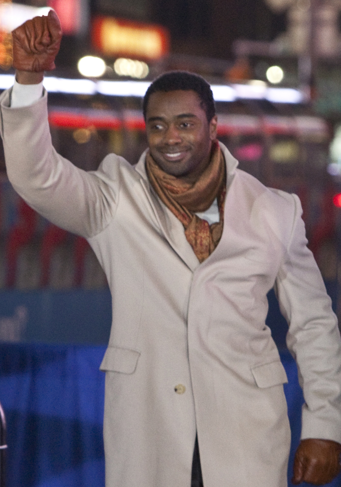 Former running back Curtis Martin at the New York Jets' pep rally at Times Square before the AFC championship game; Identity verified in video, 4:10 at